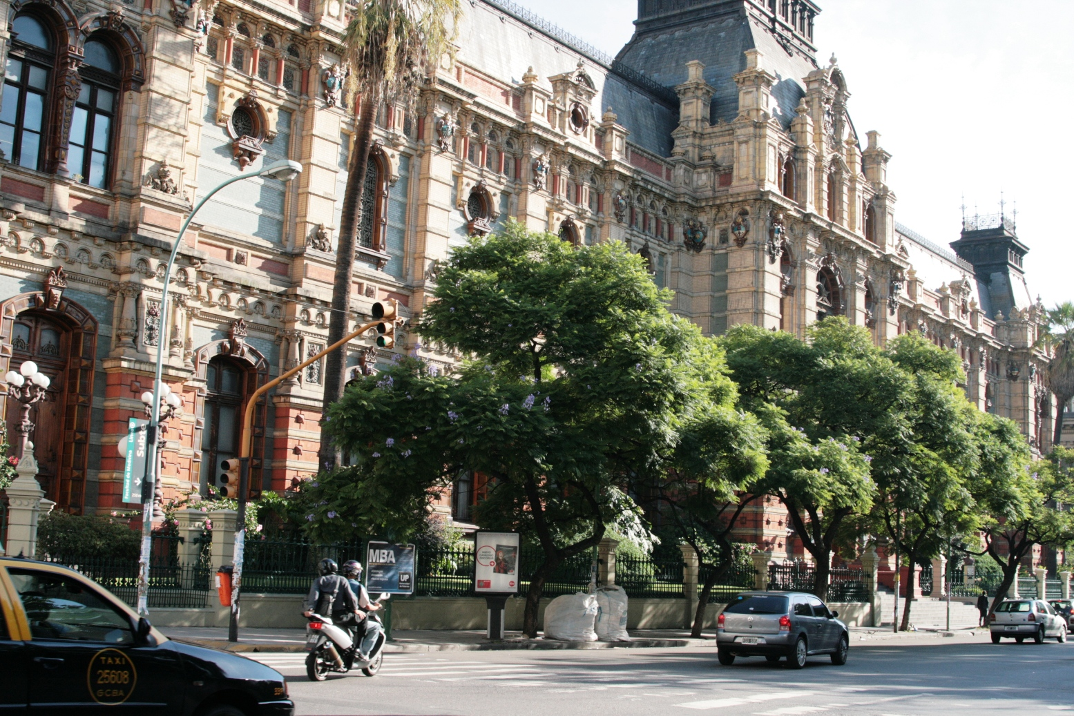 The Water Company building, Buenos Aires.